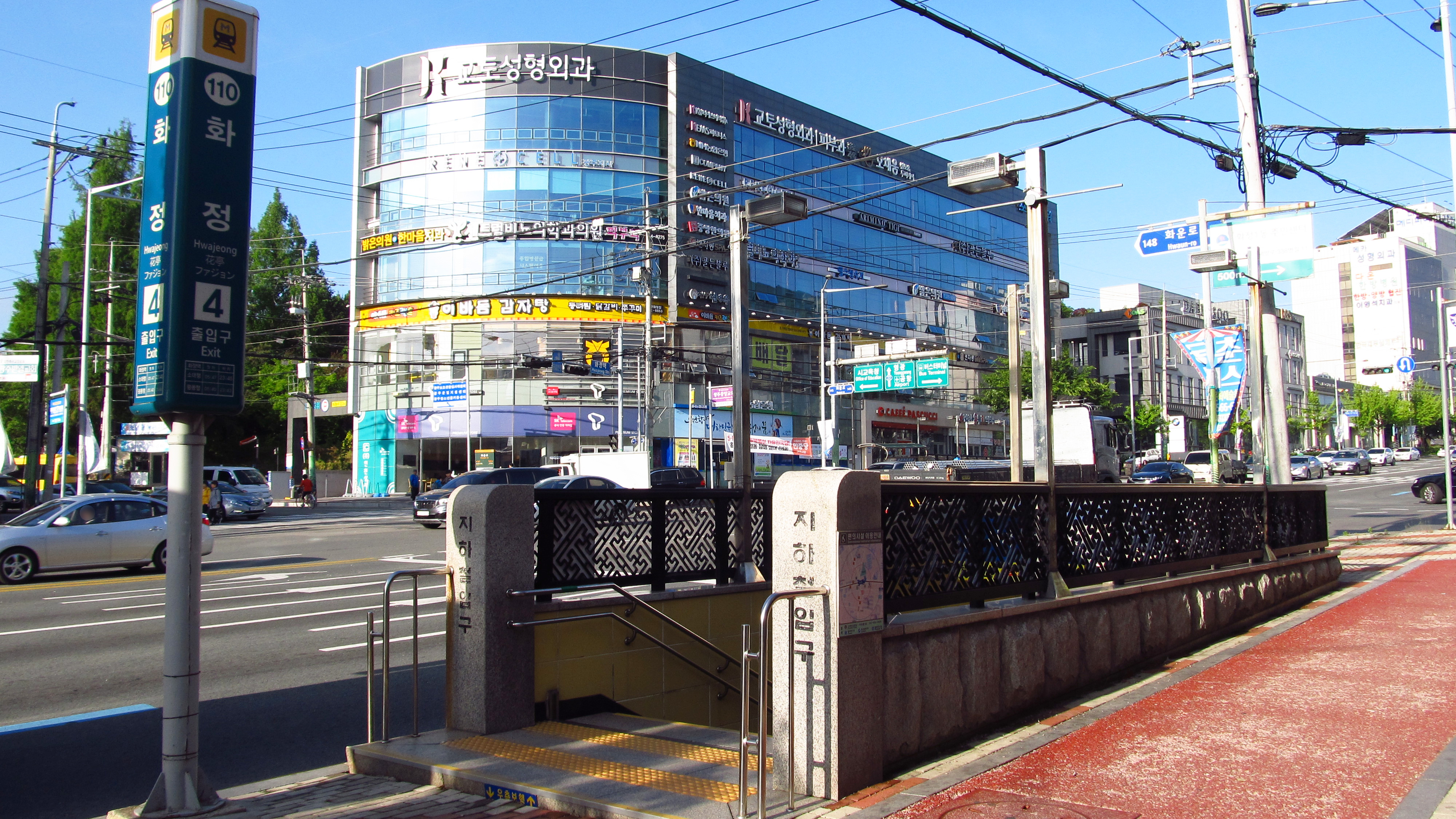 The no.4 entrance to Hwajeong Station on Gwangju Metro Line 1 in Seo-gu, Gwangju, Republic of Korea(South Korea)